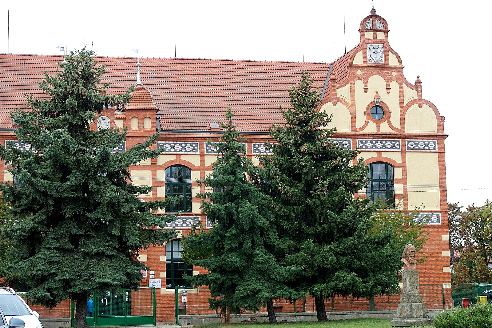 Bust of J. A. Comenius in front of the school, Hájová street, municipal district Poštorná of Břeclav town, Břeclav District, South Moravian Region.